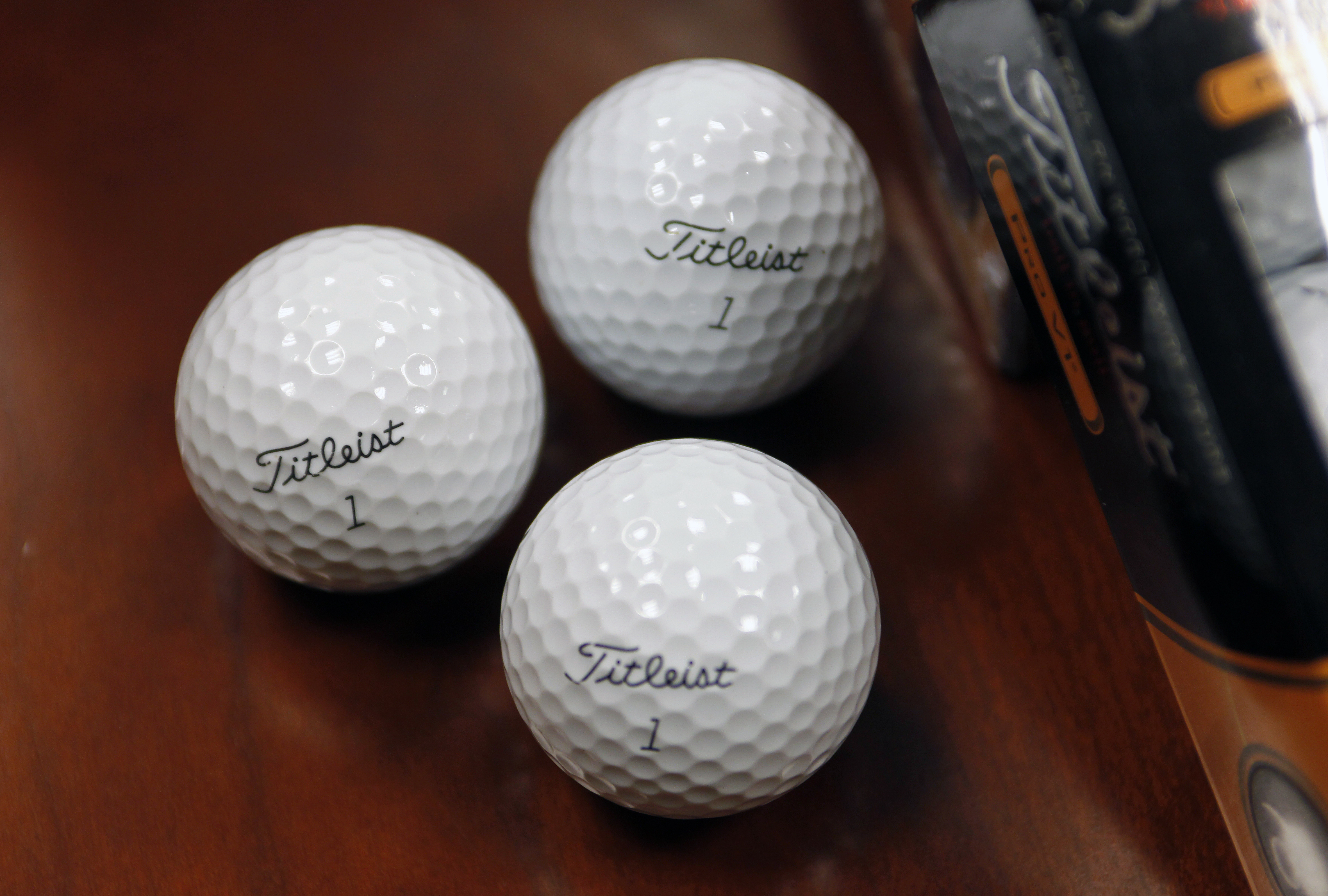 Titleist Pro v1 golf balls. Image from 2011.